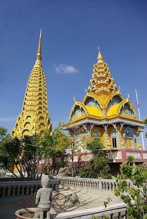 Phnom Sampeou